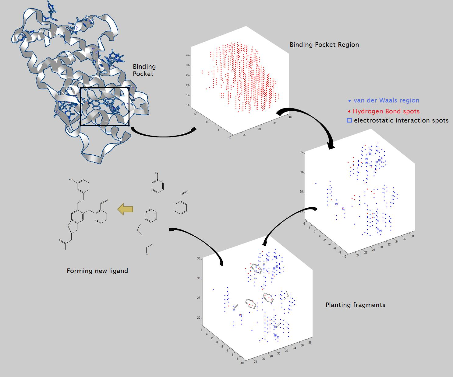 flow chart for structure based drug design